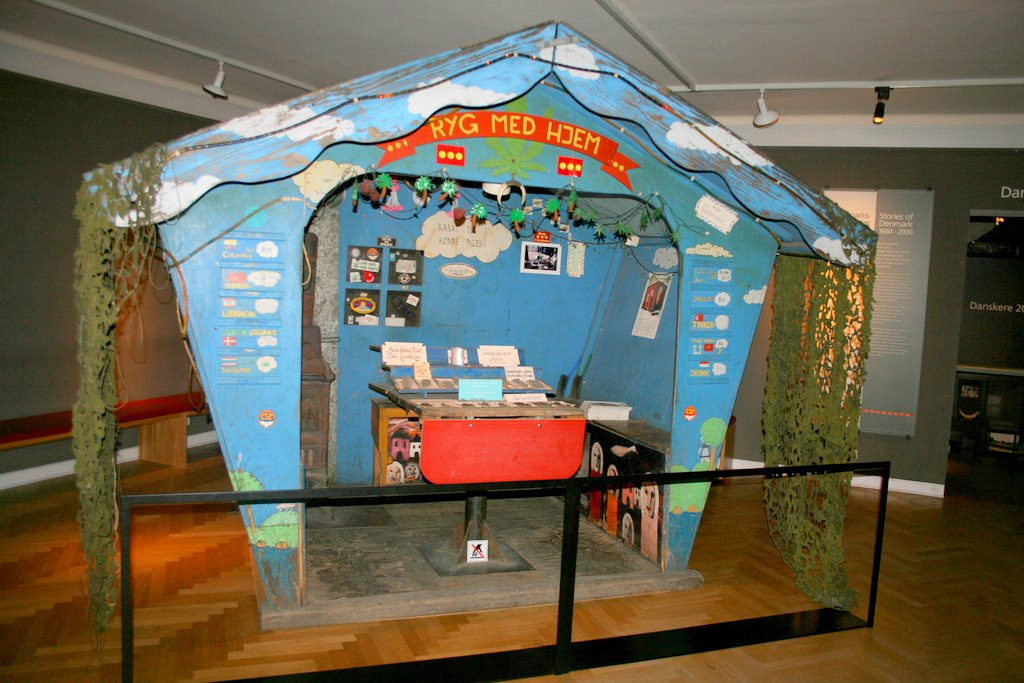 Cannabis Booth. One of the cannabis booths that used to line Pusher Street on Christiania, now on display at the National Museum, Copenhagen